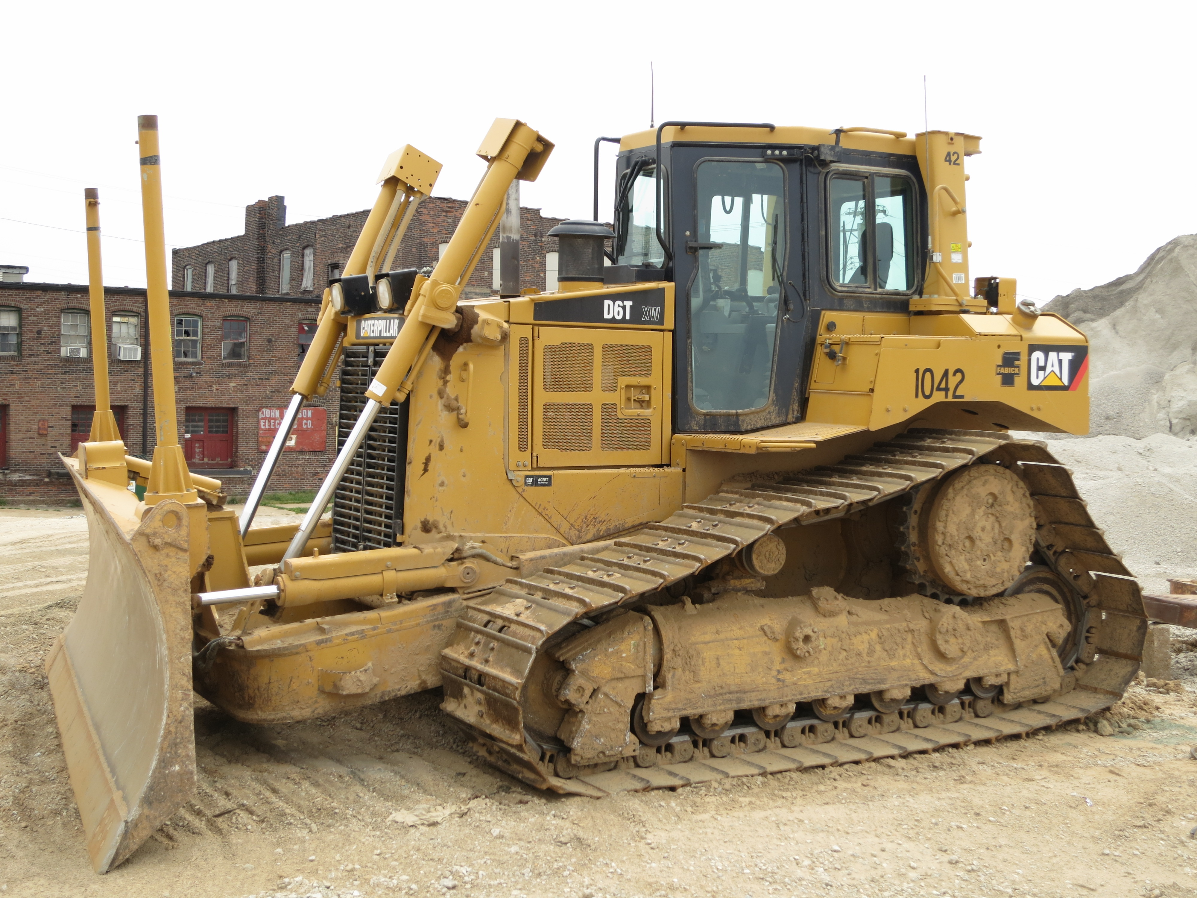 A Caterpillar D6T on the Missouri side of New Mississippi River Bridge project.